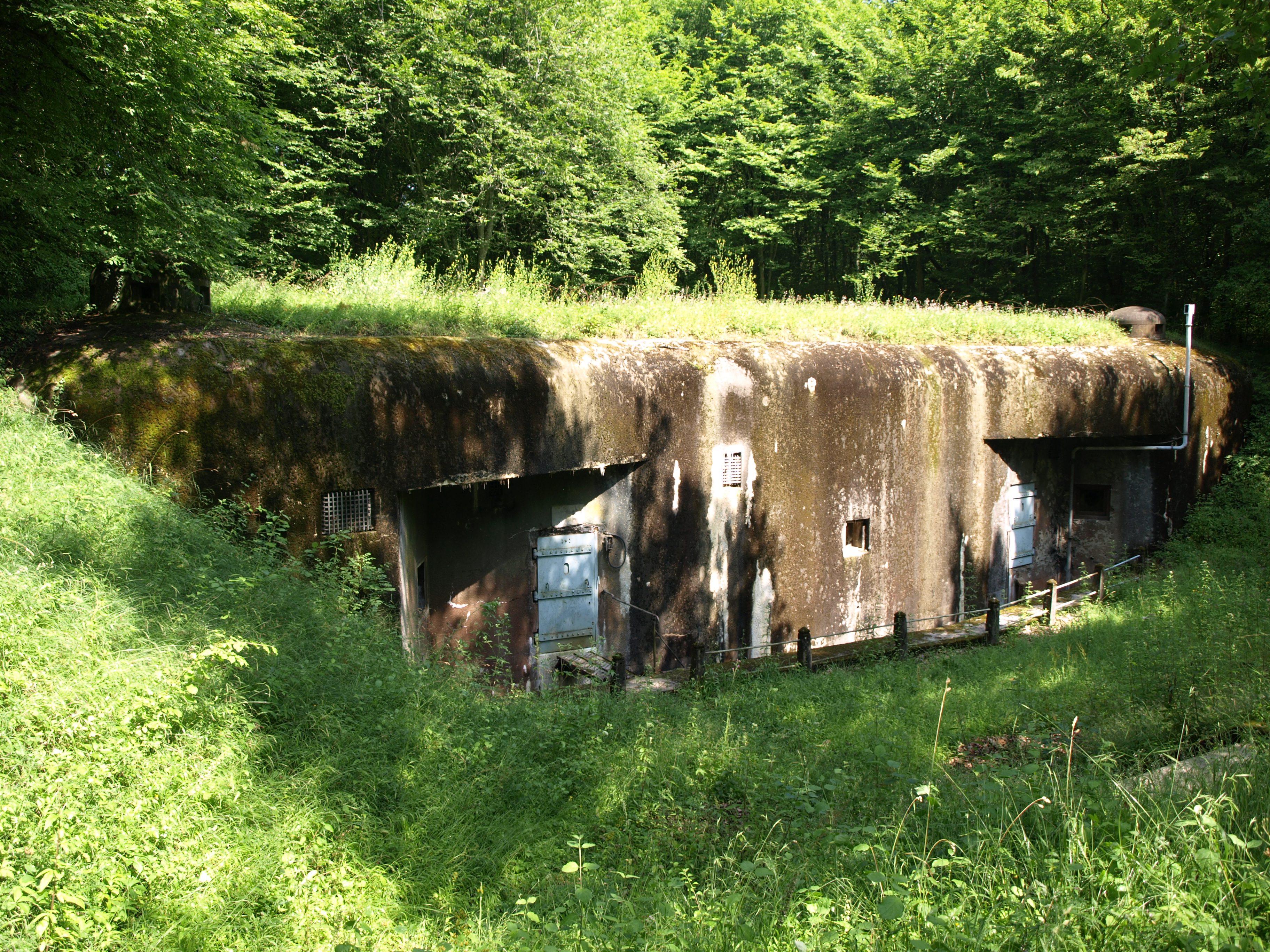 Small bunker on the Maginot Line